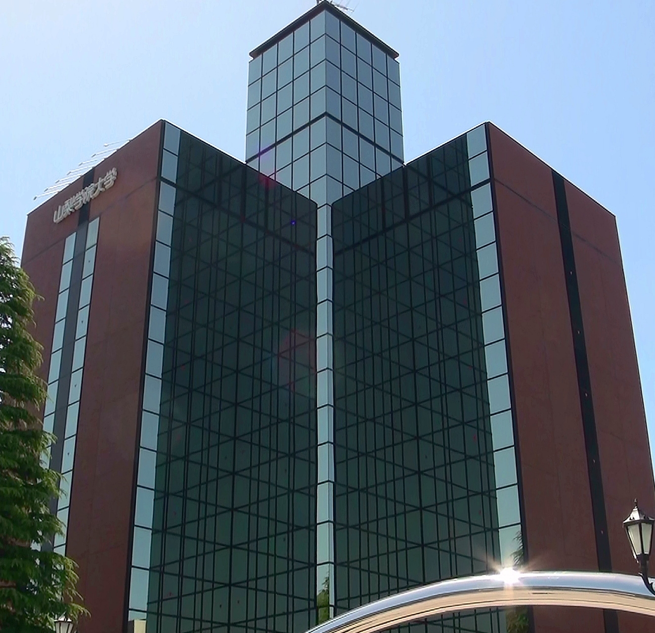 Yamanashi Gakuin University crystal tower